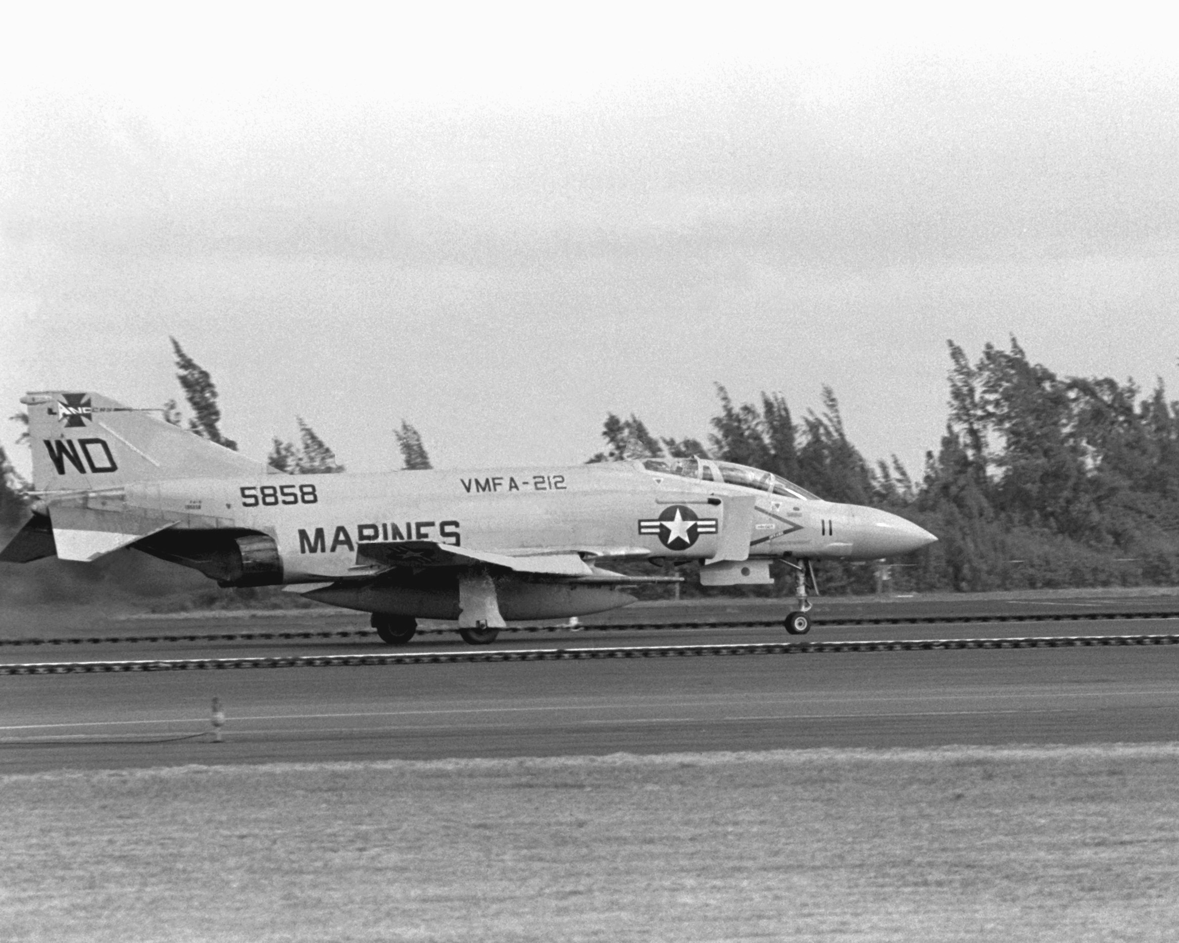 A U.S. Marine Corps McDonnell Douglas F-4J Phantom II fighter (BuNo 155858) from Marine fighter-bomber squadron VMFA-212 Lancers preparing to take off during an "Alpha Strike" exercise at Marine Corps Air Station Kaneohe Bay, Oahu, Hawaii (USA), on 23 April 1983.